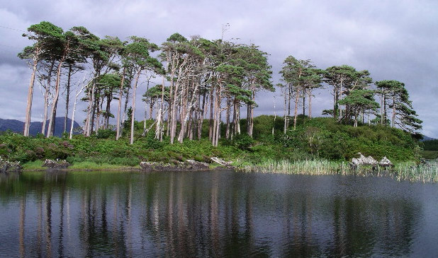 Derryclare lake ( Connemara ), County Galway, Ireland